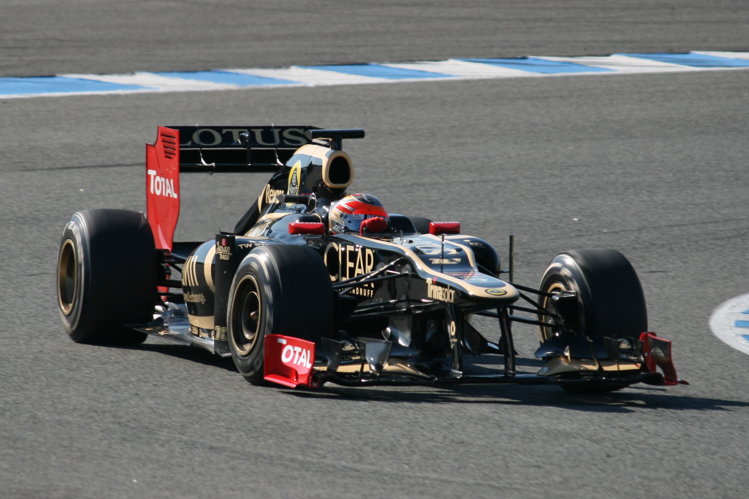 Romain Grosjean testing Lotus E20 at Jerez, Spain